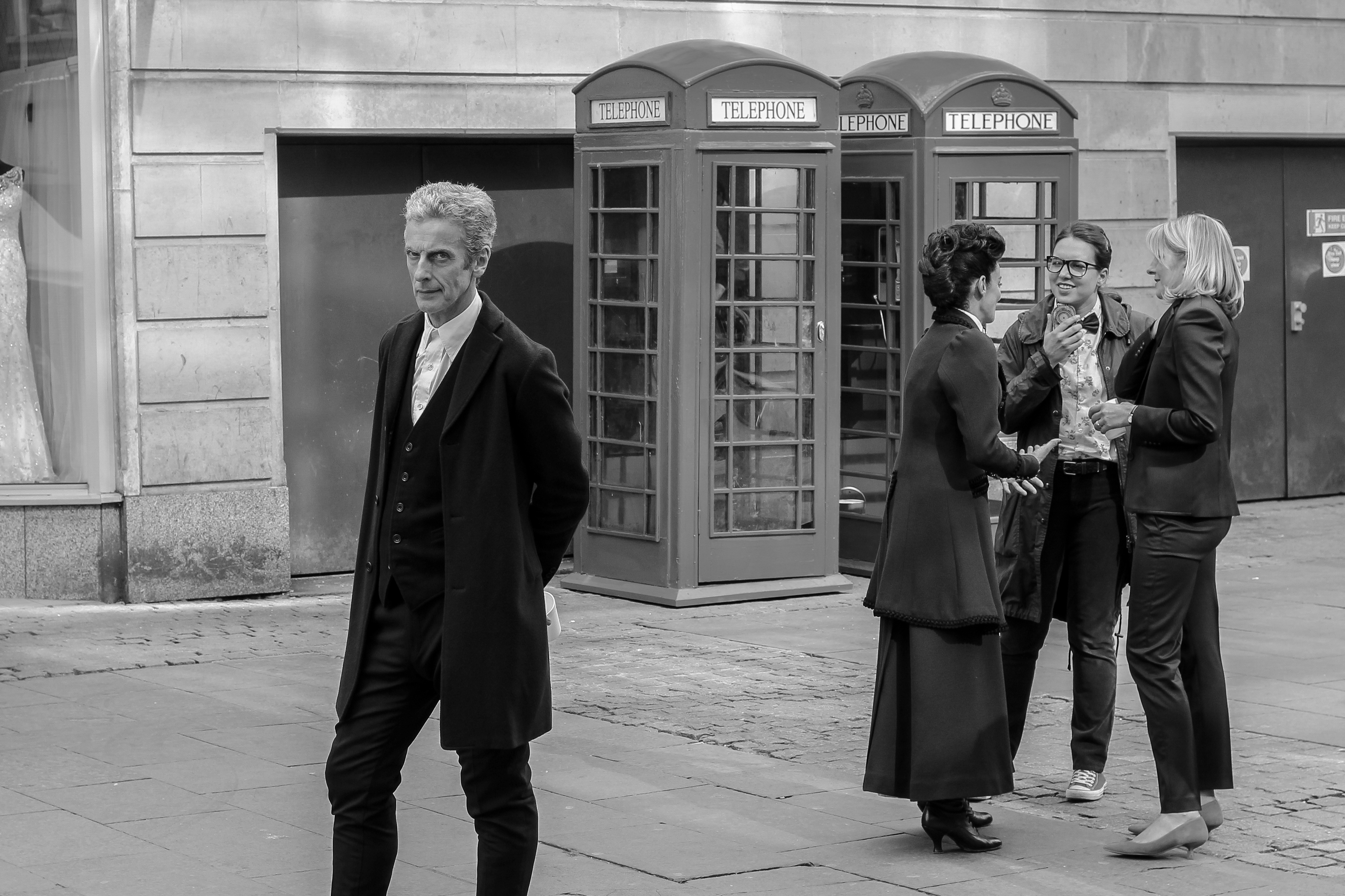 I walked into the middle of the Doctor Who (season 8) filming in the centre of Cardiff in June 2014. I believe Doctor Who is a BBC Cardiff/Wales production. As I walked past the Doctor himself, he was staring right into my eyes and I caught this shot - completely unexpectedly!The three cast members pictured to the right are (from left) Michelle Gomez, Ingrid Oliver and Jemma Redgrave.